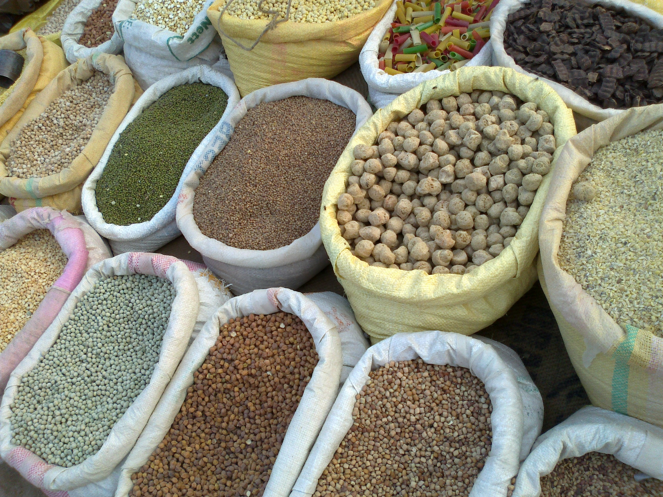 Food grains in a weekly market